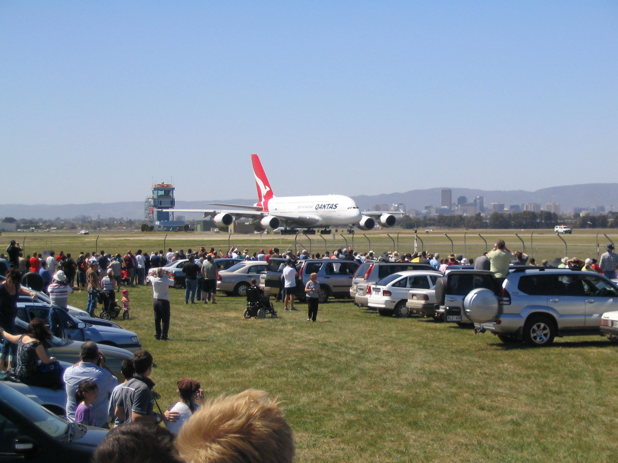 Qantas' first Airbus A380, VH-OQA, in front of a crowd of spectators at its first visit to Adelaide Airport in South Australia, 27th September 2008.